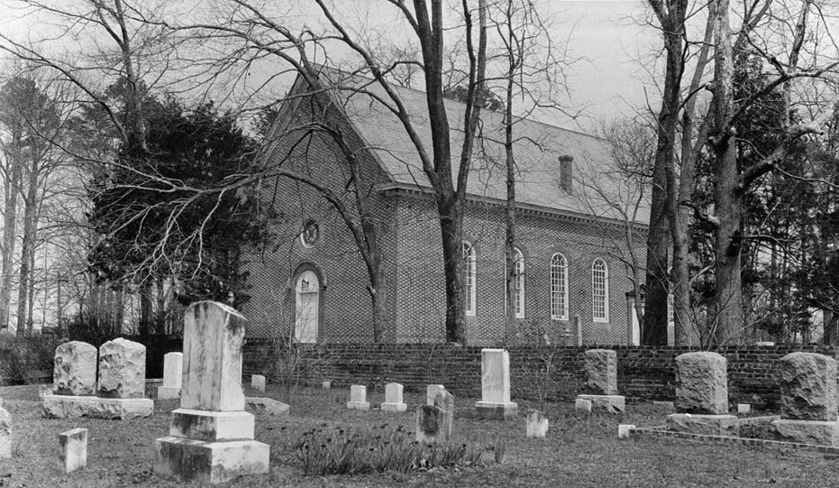 Ware Church, State Route 3, Gloucester vicinity (Gloucester County, Virginia) cropped This file comes from the Historic American Buildings Survey (HABS), Historic American Engineering Record (HAER) or Historic American Landscapes Survey (HALS). These are programs of the National Park Service established for the purpose of documenting historic places. Records consist of measured drawings, archival photographs, and written reports. When reusing please credit: Library of Congress, Prints & Photographs Division, VA,37-GLO.V,2-2 This tag does not indicate the copyright status of the attached work. A normal copyright tag is still required. See Commons:Licensing for more information. English | +/− This work is in the public domain in the United States because it is a work prepared by an officer or employee of the United States Government as part of that person’s official duties under the terms of Title 17, Chapter 1, Section 105 of the US Code. See Copyright. Note: This only applies to original works of the Federal Government and not to the work of any individual U.S. state, territory, commonwealth, county, municipality, or any other subdivision. This template also does not apply to postage stamp designs published by the United States Postal Service since 1978. (See § 313.6(C)(1) of Compendium of U.S. Copyright Office Practices). It also does not apply to certain US coins; see The US Mint Terms of Use. This file has been identified as being free of known restrictions under copyright law, including all related and neighboring rights.